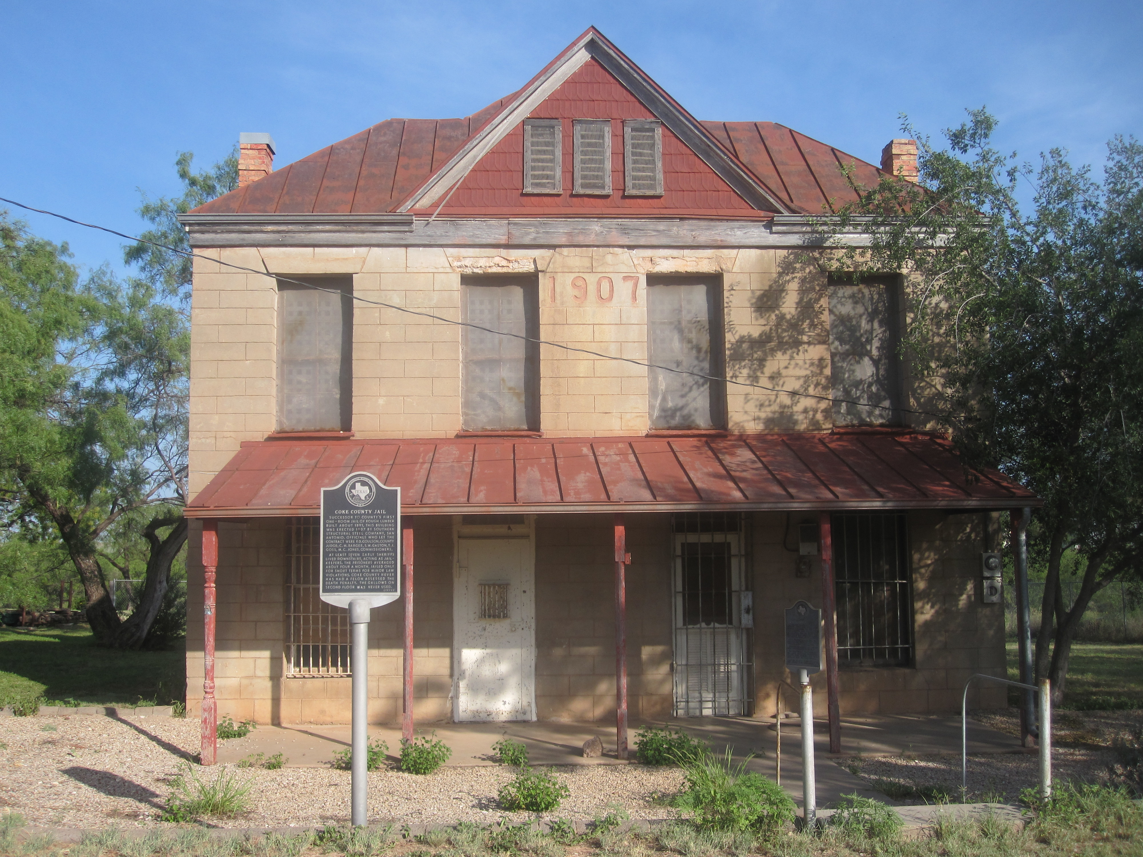 I took photo with Canon camera in Robert Lee, TX.